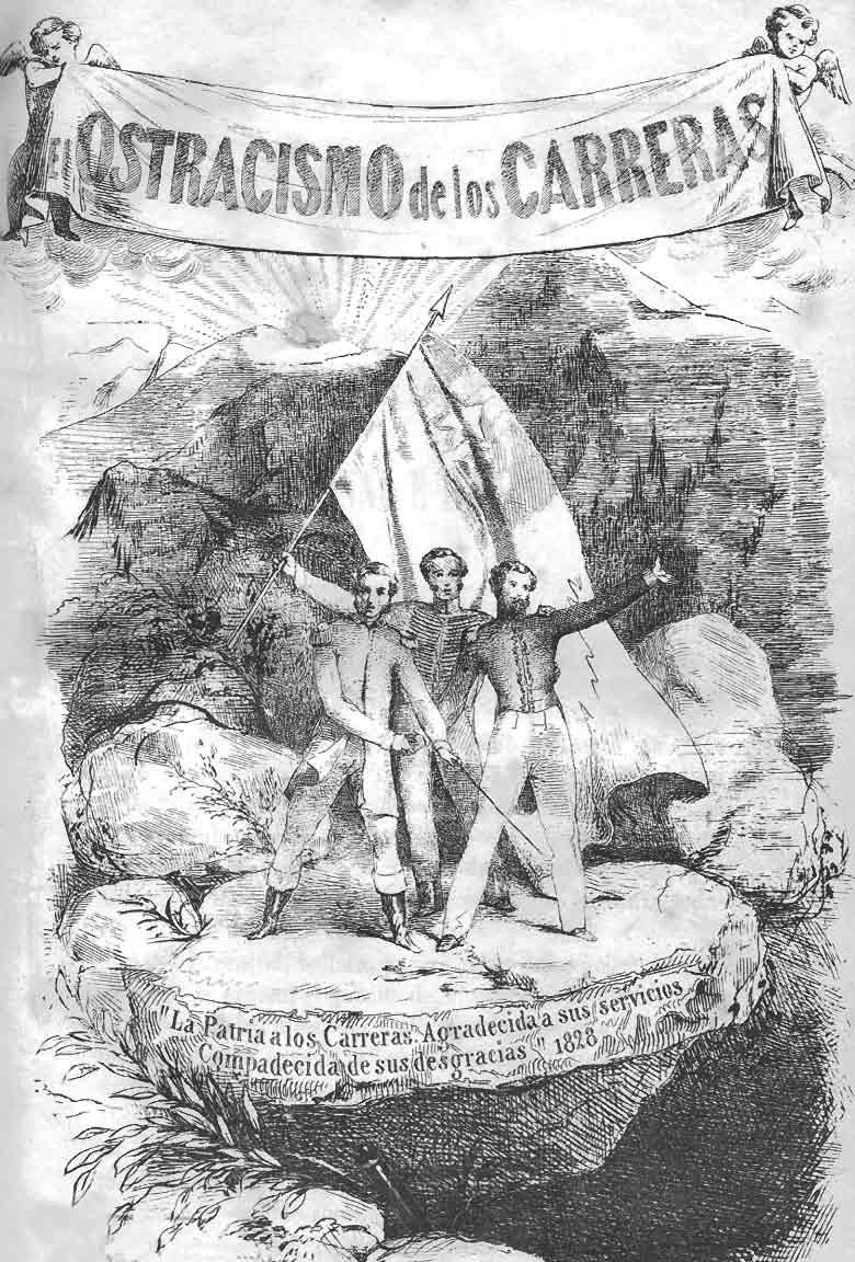 The Carrera brothers (from left to right): Luis, José Miguel and Juan José.